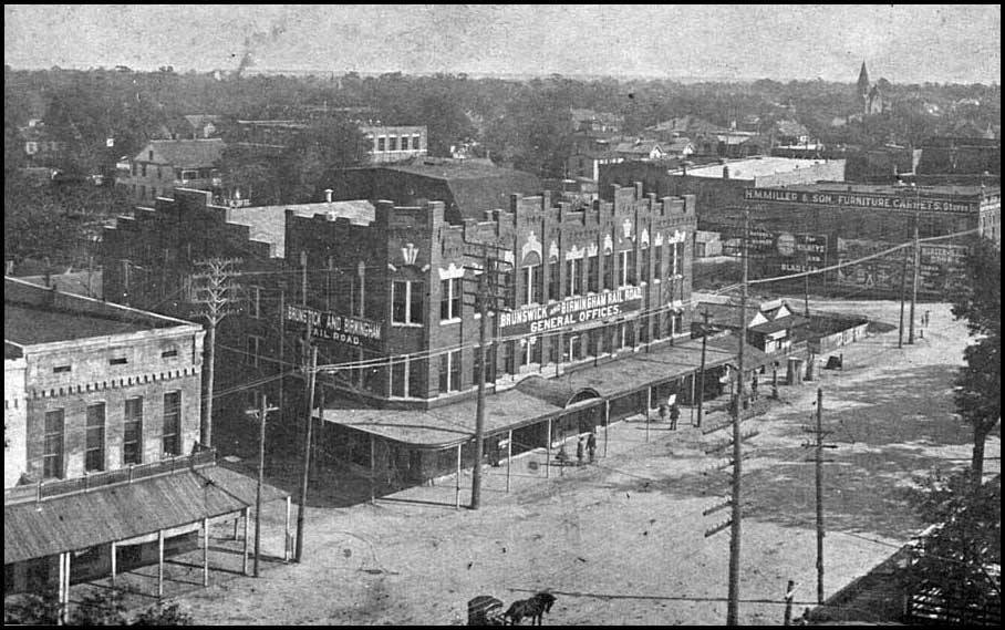 A view of Brunswick, Georgia, US, featuring the headquarters of the Brunswick and Birmingham Railroad, which is now the Ritz Theatre. The railroad lasted only until 1904. Horse and buggy visible; no cars.